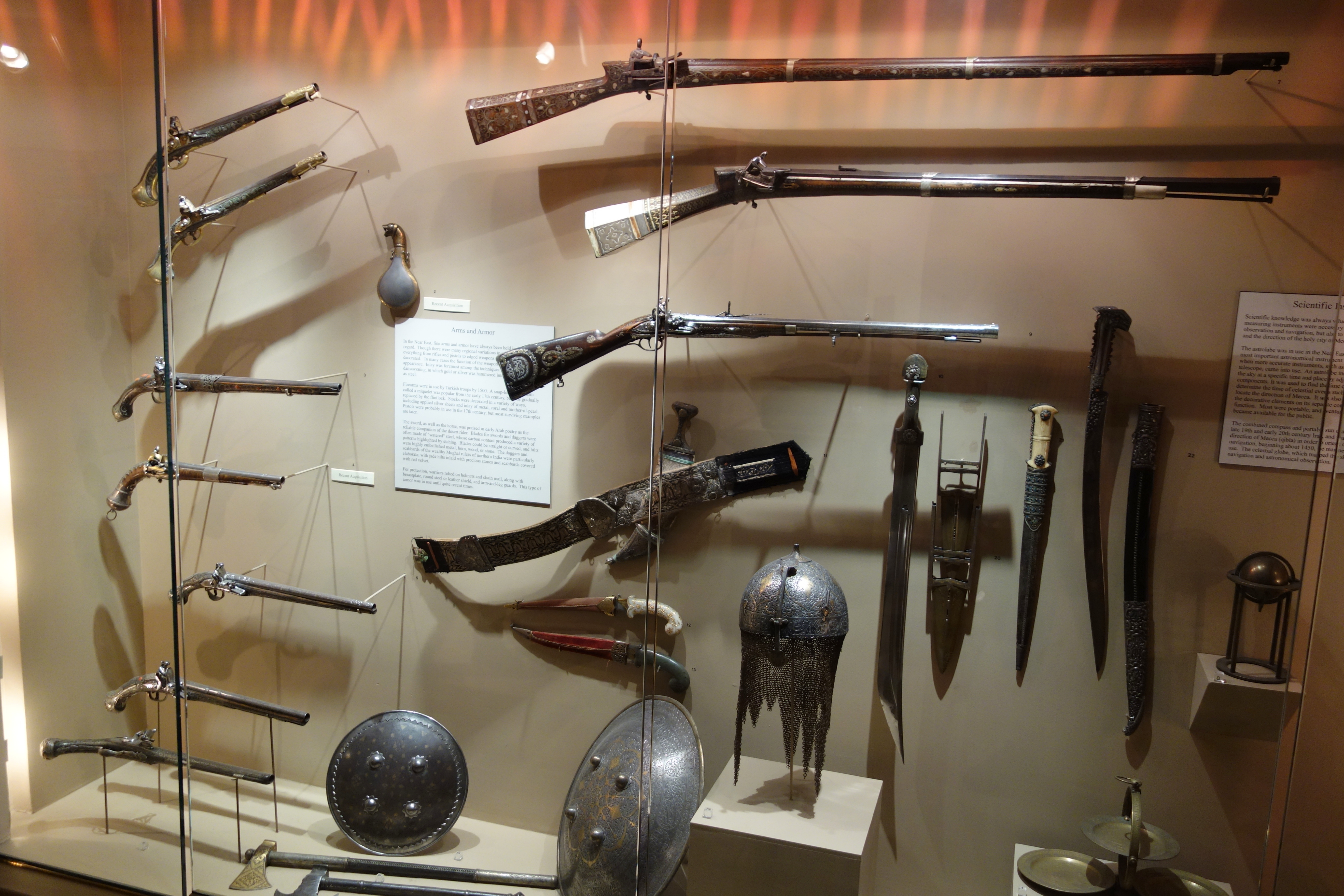 Exhibit in the Huntington Museum of Art, Huntington, West Virginia, USA. This artwork is in the public domain because the artist died more than 70 years ago.